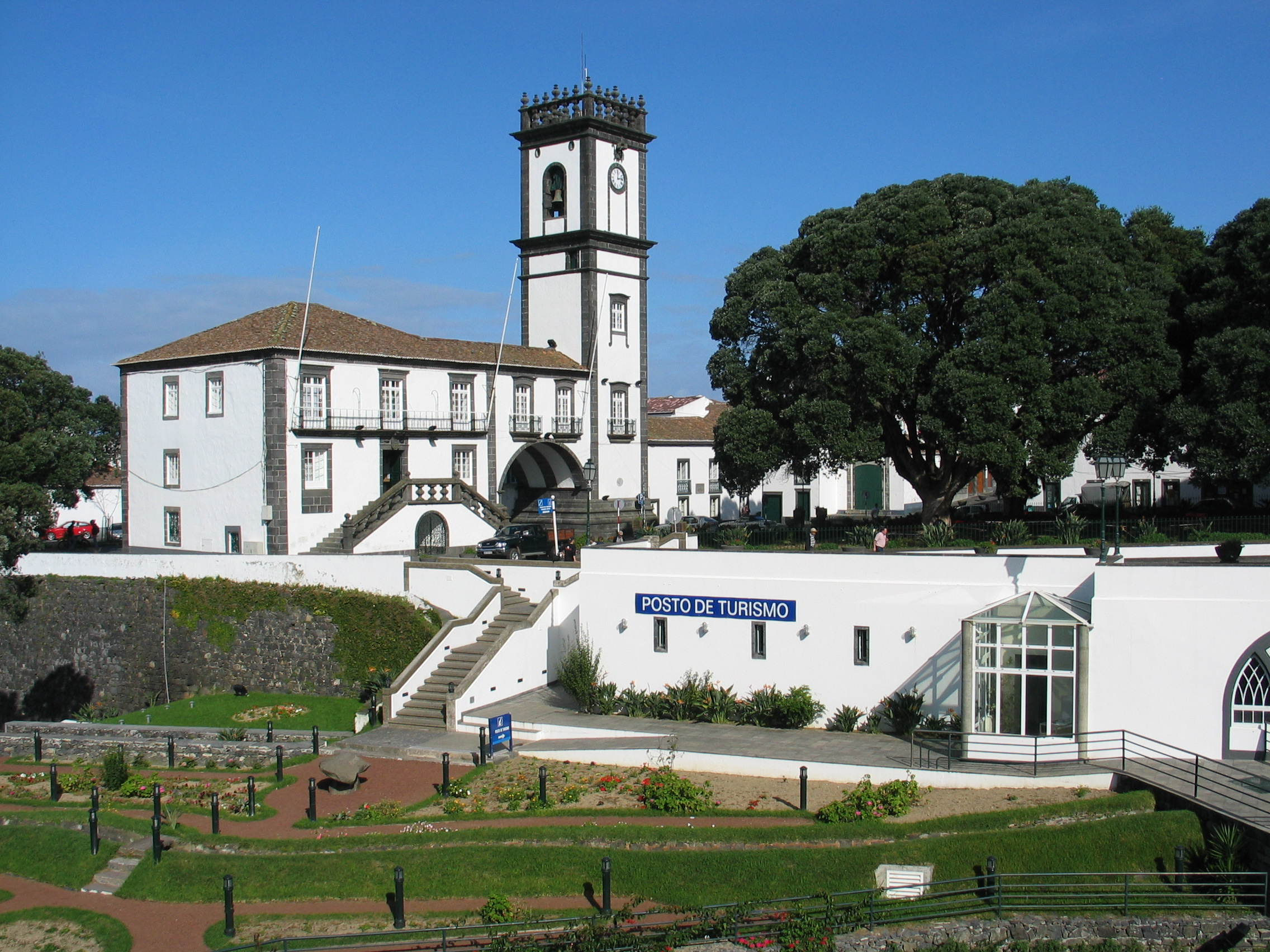 Ribeira Grande, Azores